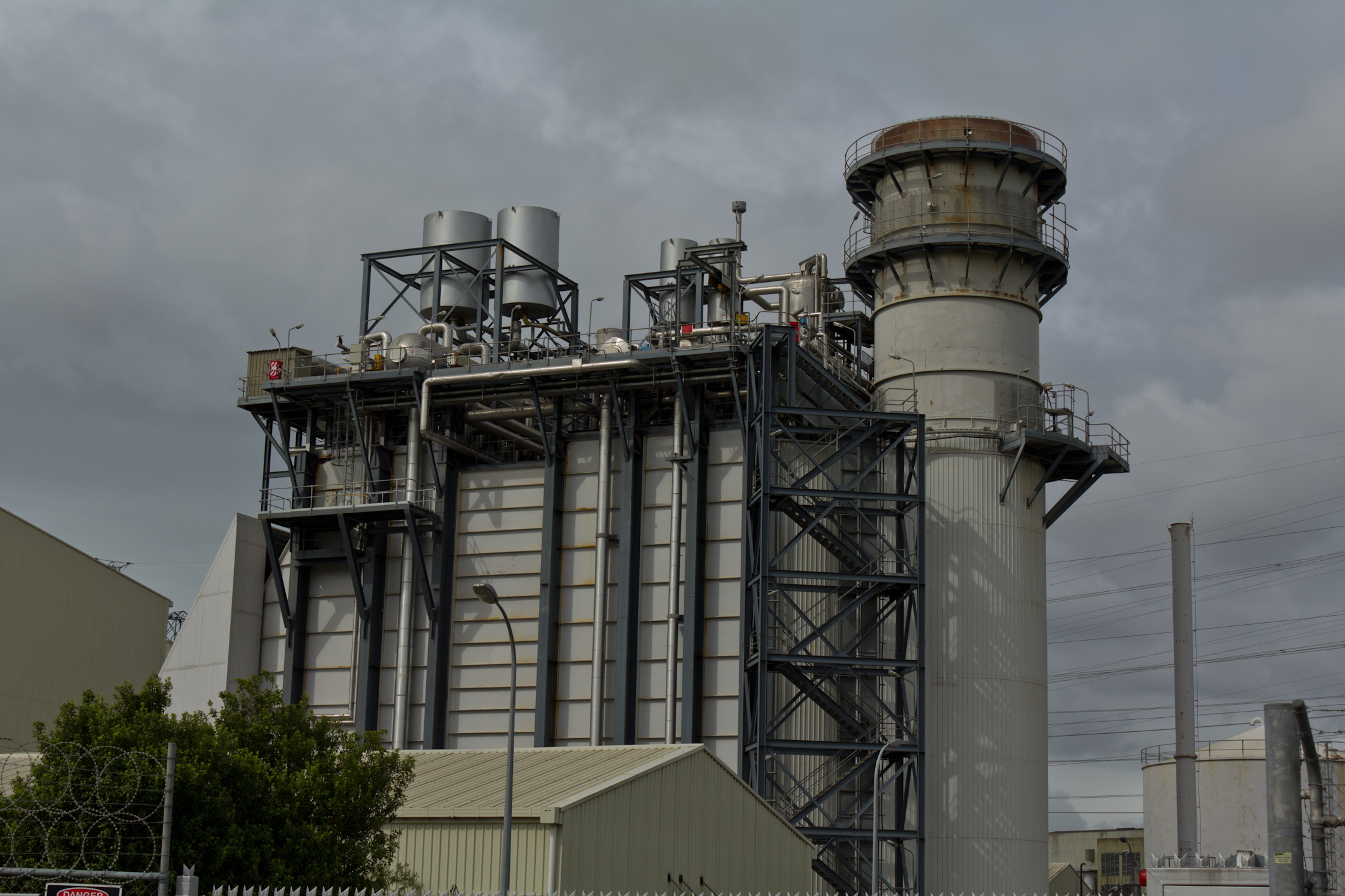 Otahuhu Power Station's 404MW combined cycle turbine. Also known as Otahuhu B.